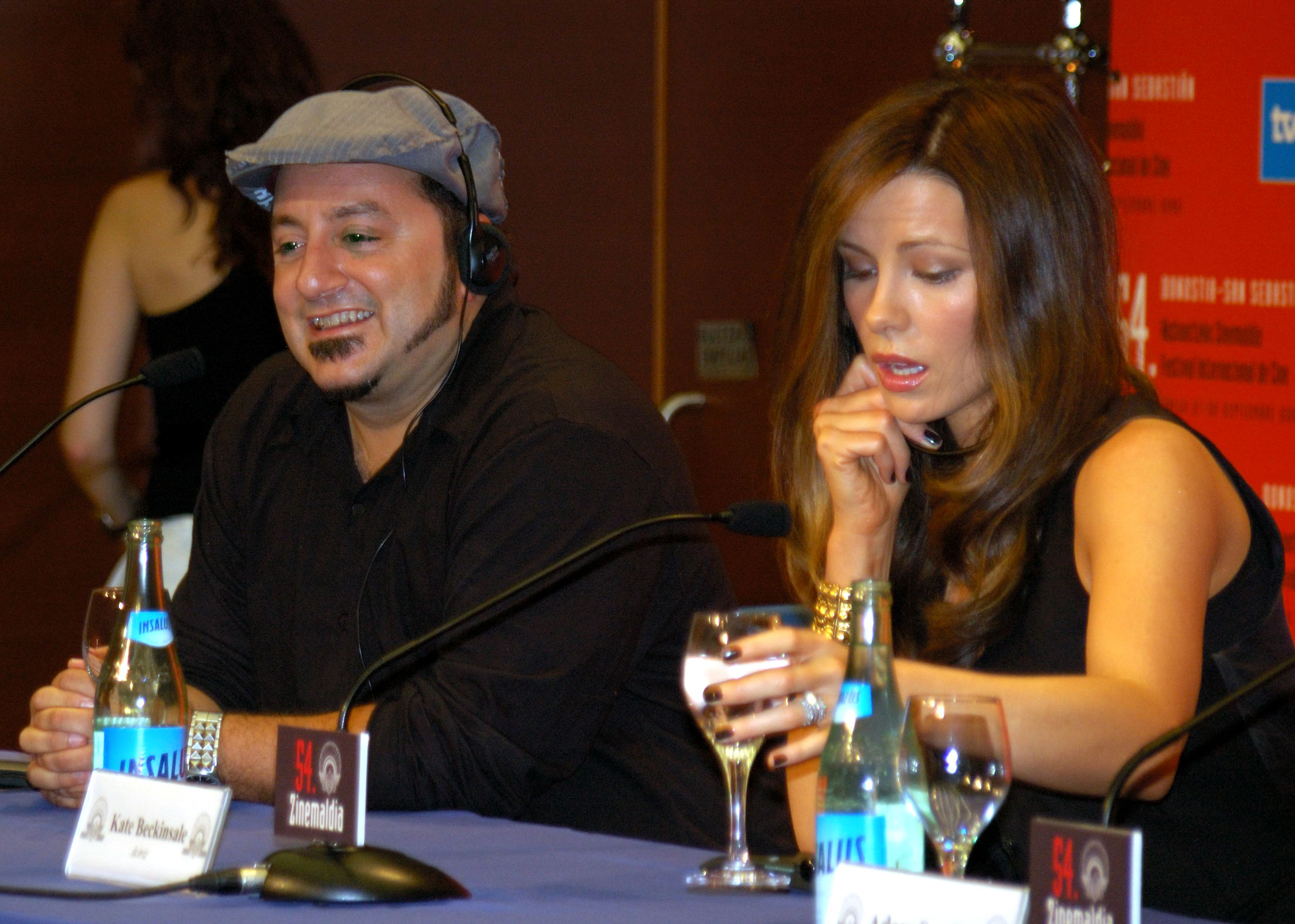 Frank Coraci and Kate Beckinsale in San Sebastian International Film Festival.